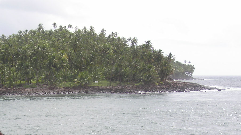 Devil's Island